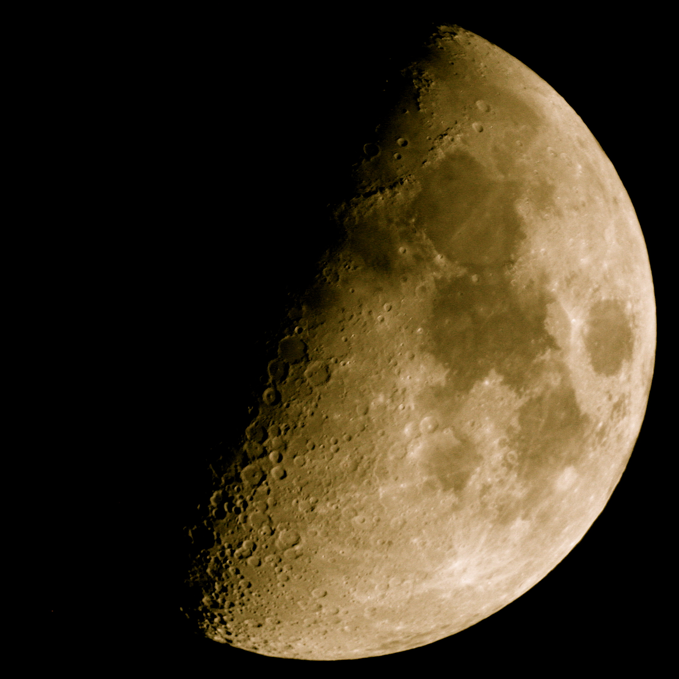 Strange Attractor